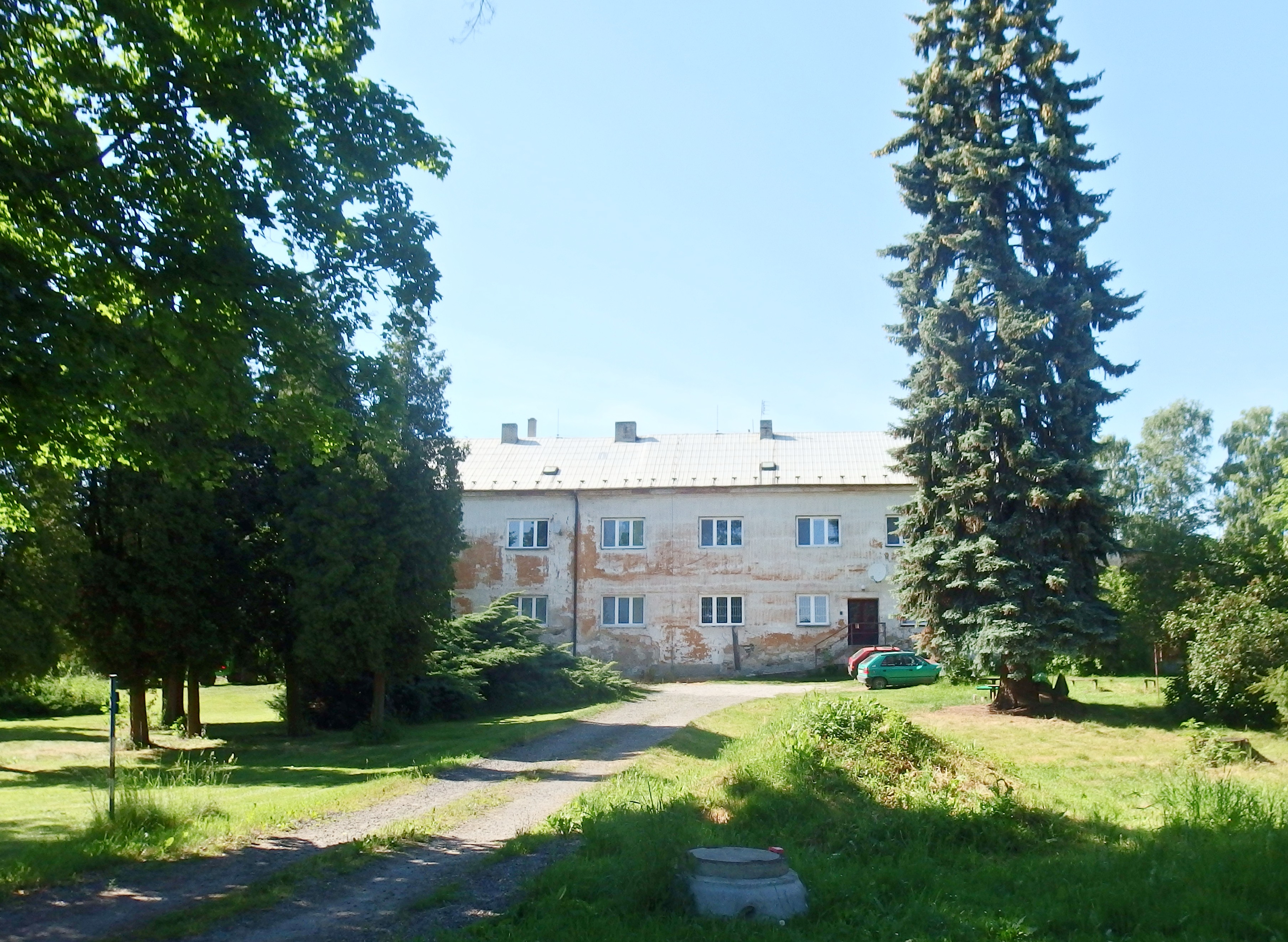 Bartošovice, Nový Jičín District, Czech Republic, part Hukovice.